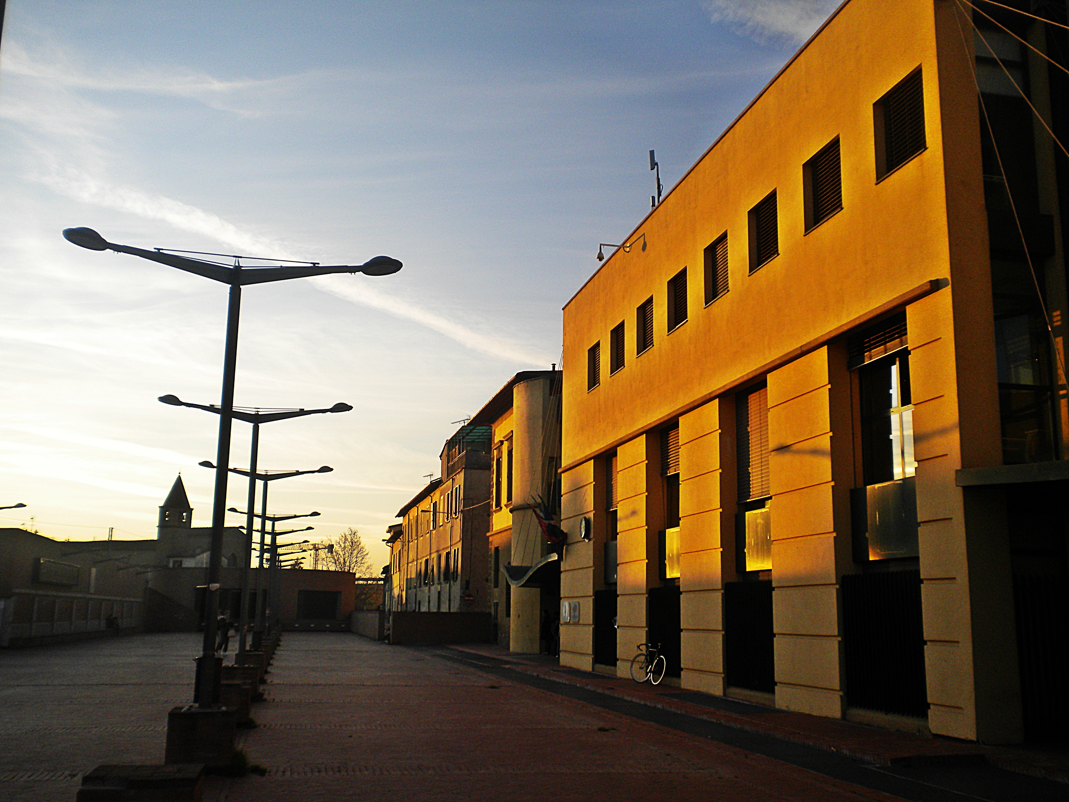 university